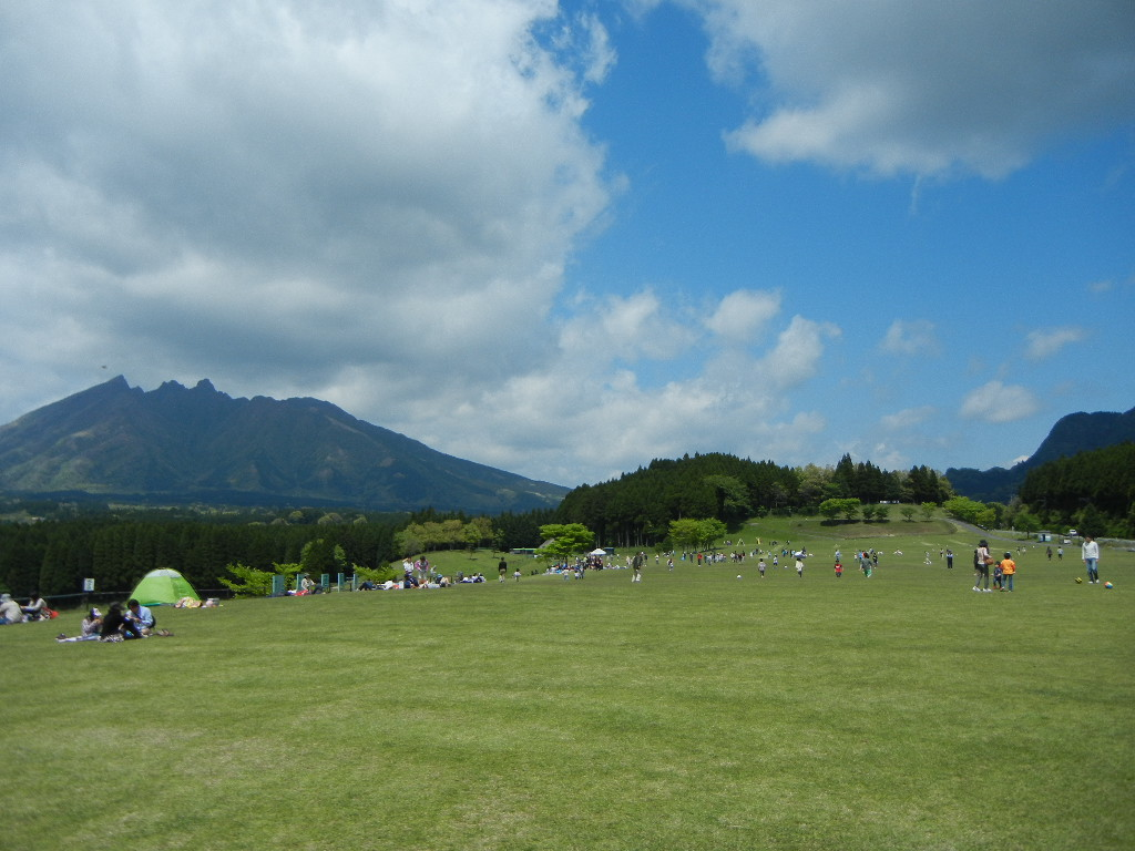 Tsukimawari_Park_Takamori. 熊本県高森町にある月廻り公園, Takamori.